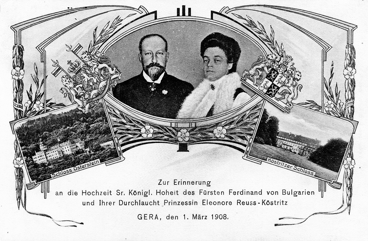 Wedding from Ferdinand of Bulgaria and Eleonore Reuss-Köstritz